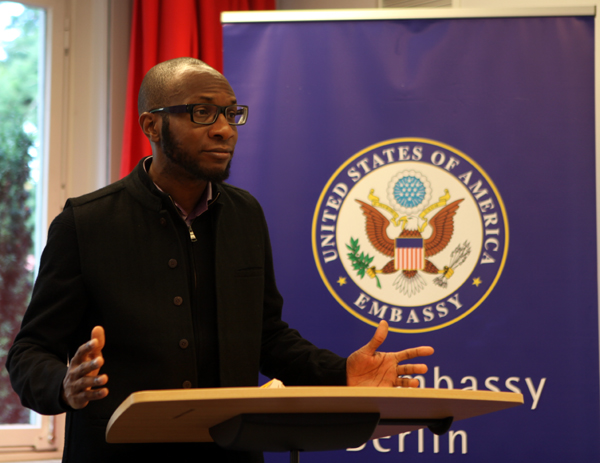 Nigerian-American writer Teju Cole.